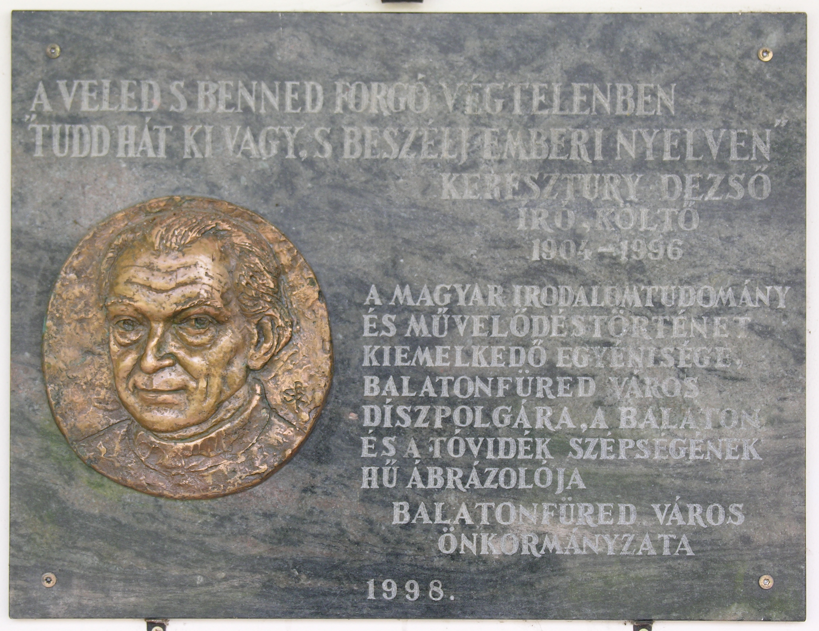 Commemorative plaque of Dezső Keresztury in Balatonfüred, Gyógy Square No 1